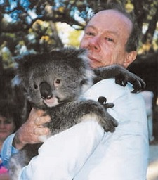 Mathematician Andrew Mattei Gleason , 1988